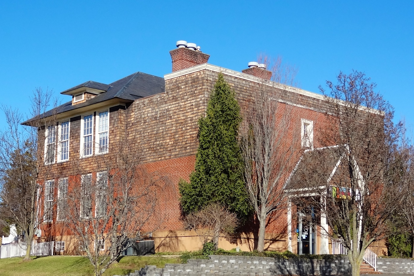 Center for Contemporary Art, a pivotal building in the Pluckemin Village Historic District. Former township building. Built in 1912.